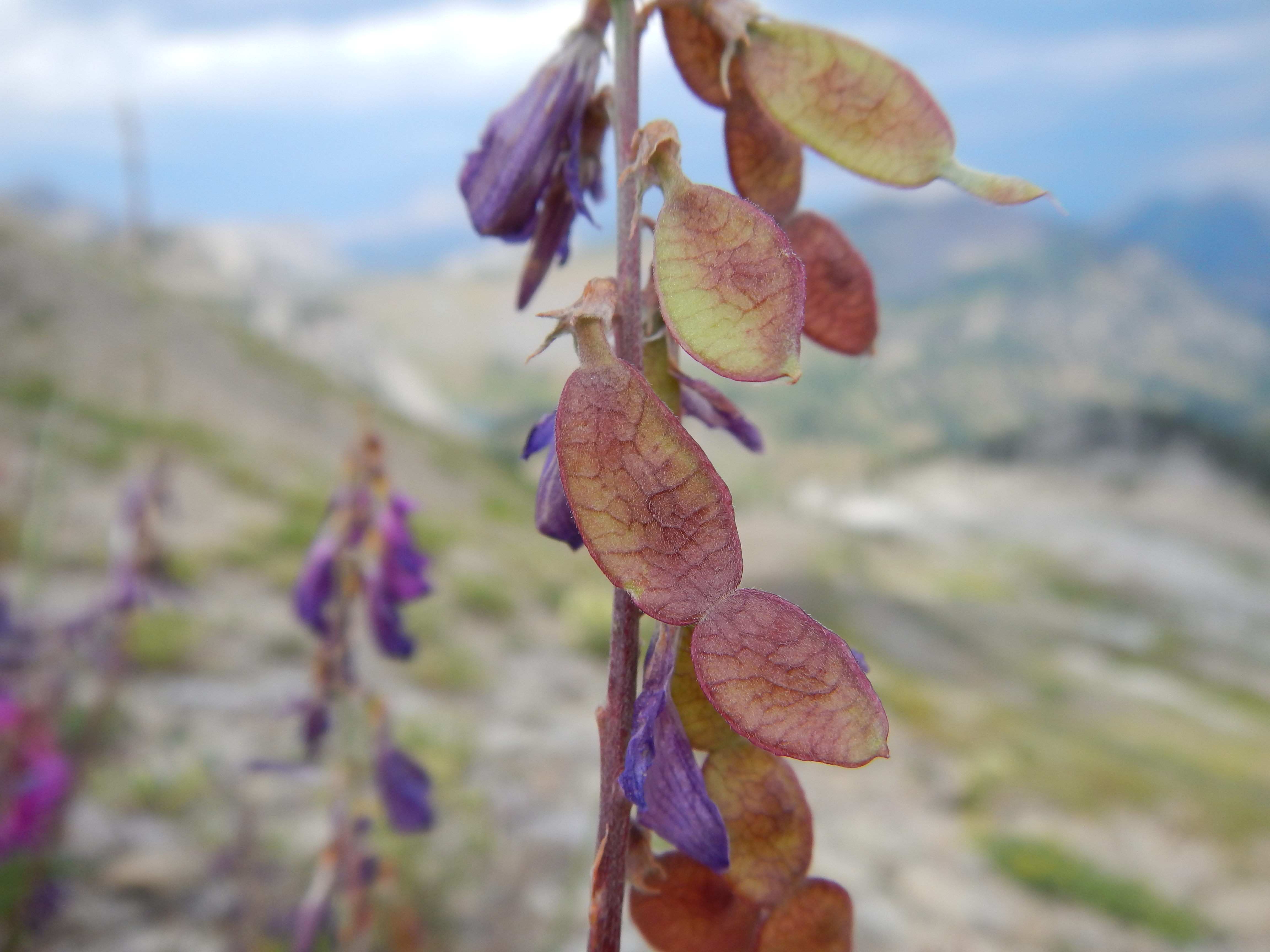 Western sweetvetch is common in subalpine vegetation on open grassy slopes and rocky ridges. The lomented fruits with reticulate venation and loments 6-10 mm wide and purple keel petals (with the characteristic Hedysareae blunt end) that are 15-20 mm long are distinguishing of this species.